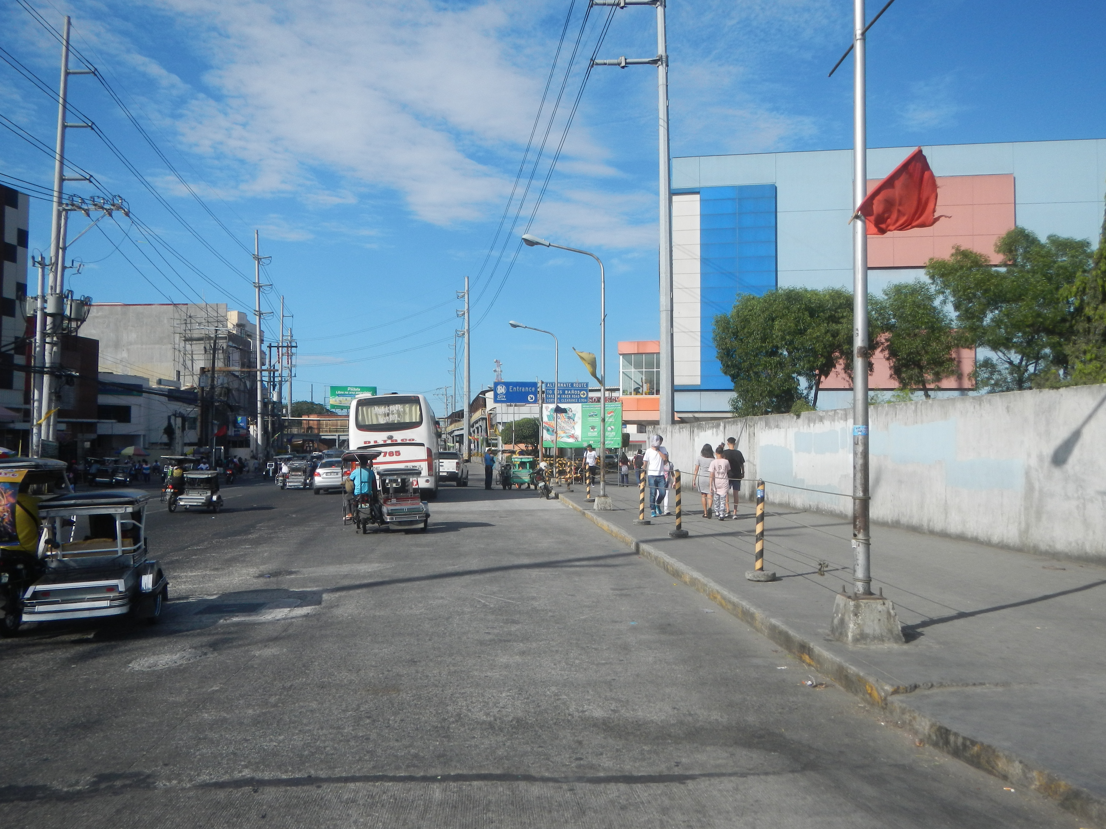 Exterior of SM City Calamba Walter Mart Calamba-Real HM Transport Inc. Real, Calamba 14°11'49"N 121°9'2"E from Turbina and Milagrosa, Calamba along Maharlika Highway (Calamba City section) Pan-Philippine Highway; in Makiling 14°9'8"N 121°8'17"E Barangays Makiling, Calamba Milagrosa Turbina, Calamba Real, Calamba Poblacion I, Calamba Poblacion II, III, IV, VI and VII, Calamba and Poblacion V, Calamba Calamba, Laguna Poblacion 14°12'32"N 121°9'46"E Calamba Poblacion (Note: Judge Florentino Floro, the owner, to repeat, Donor Florentino Floro of all these photos hereby donate gratuitously, freely and unconditionally Judge Floro all these photos to and for Wikimedia Commons, exclusively, for public use of the public domain, and again without any condition whatsoever).